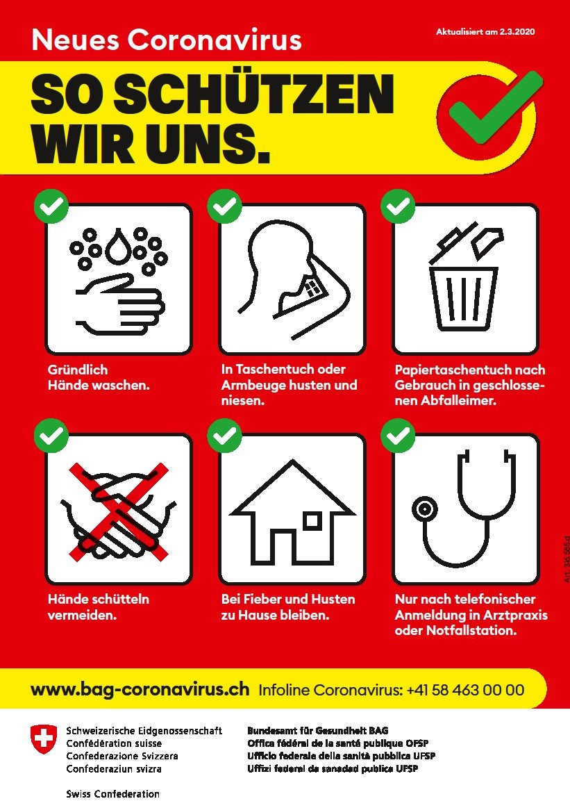 Poster "New coronavirus: protect yourself and others" from the Federal Office of Public Health (version of 2 March 2020, in German).